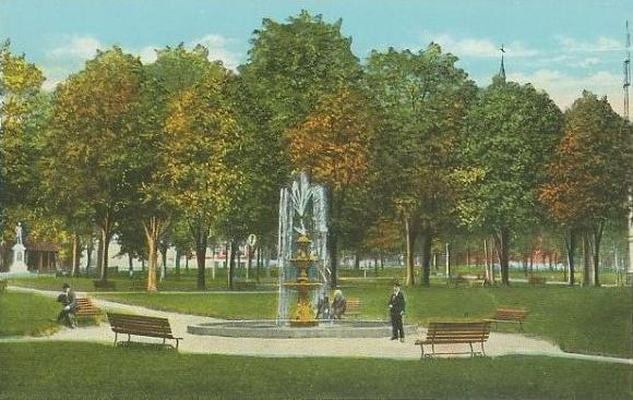 City Park & Fountain, Lewiston, ME; from a c. 1915 postcard.